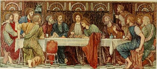 Panel forming part of the east wall decoration in St. Chad's church, Kirkby.